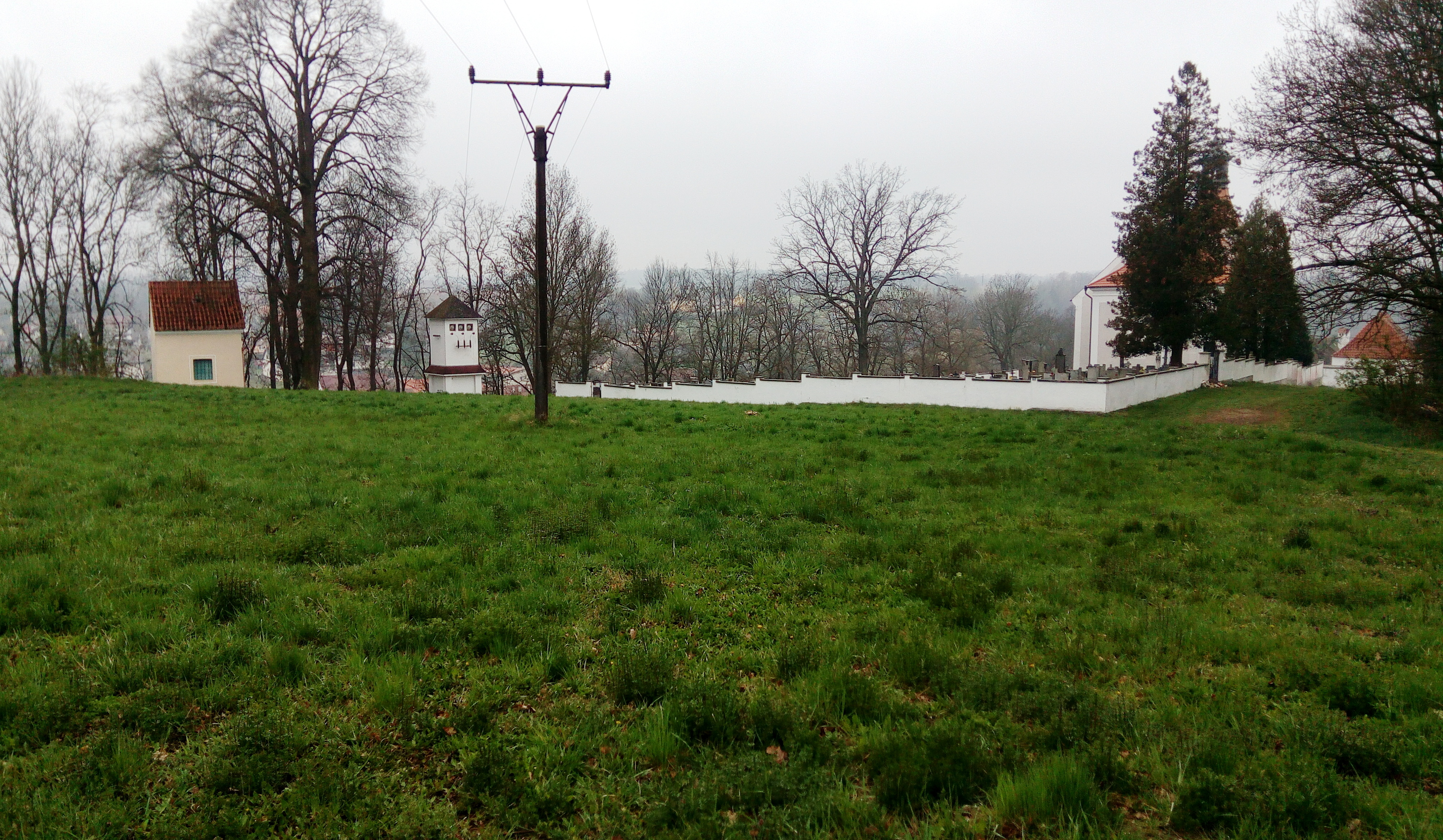 Place where used to be a Slav hillfort in the village of Doudleby, České Budějovice District, Czech Republic, the Church of Saint Vincent of Saragossa at the background.